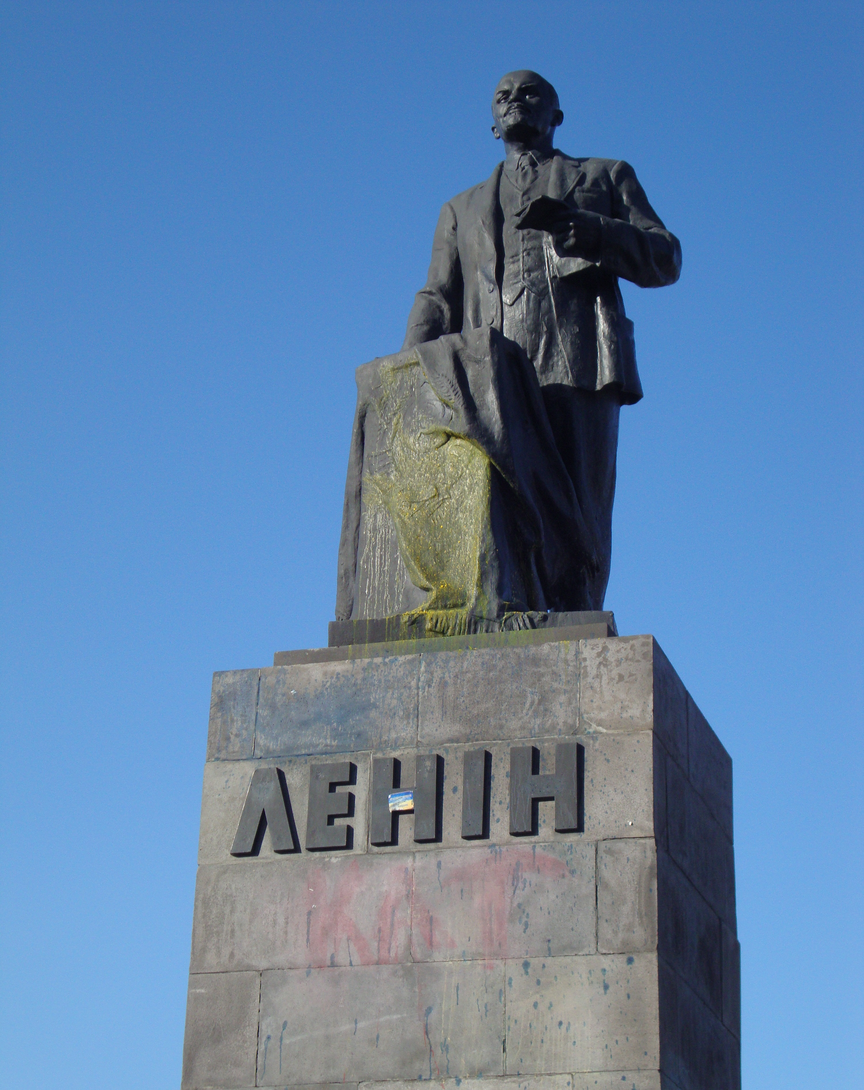 Vladimir Lenin monument on Revolution square in Luhansk, Ukraine. 24th February 2014 this monument was doused with yellow ahd red paint